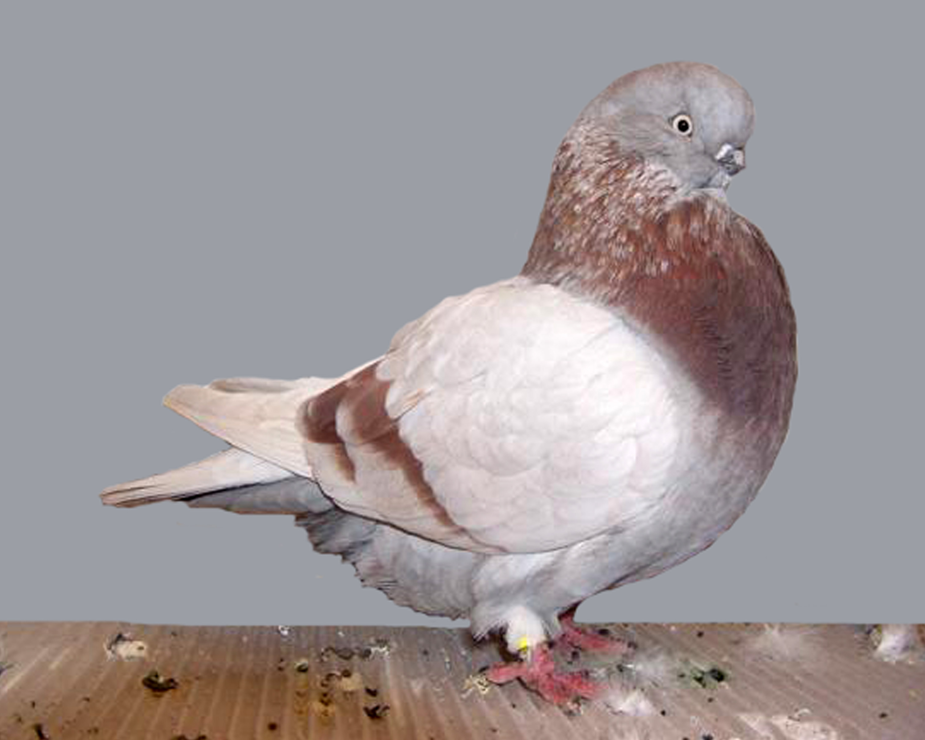 English Long-faced Clean-legged Tumbler (Mealie)